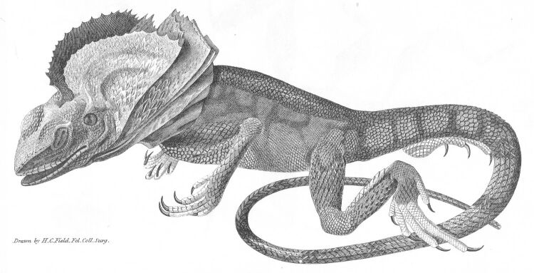 Engraving of Frill-necked Lizard (Chlamydosaurus kingii) from Narrative of a Survey Volume 2 by Phillip Parker King